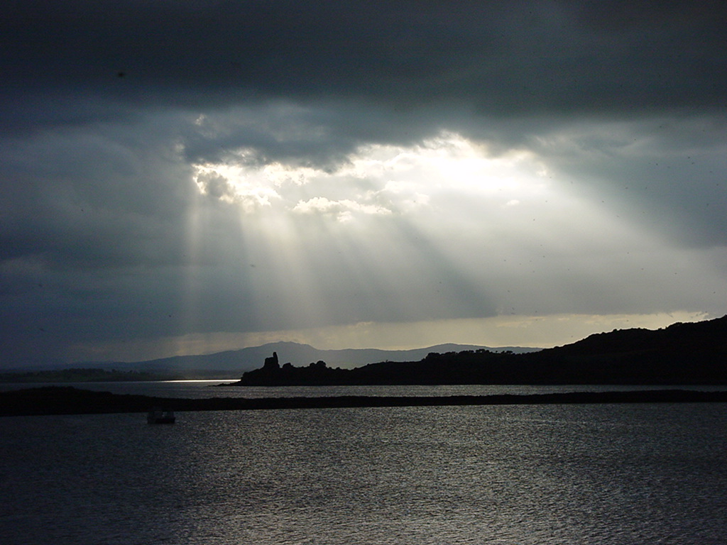 Farland Bank and Inch Castle